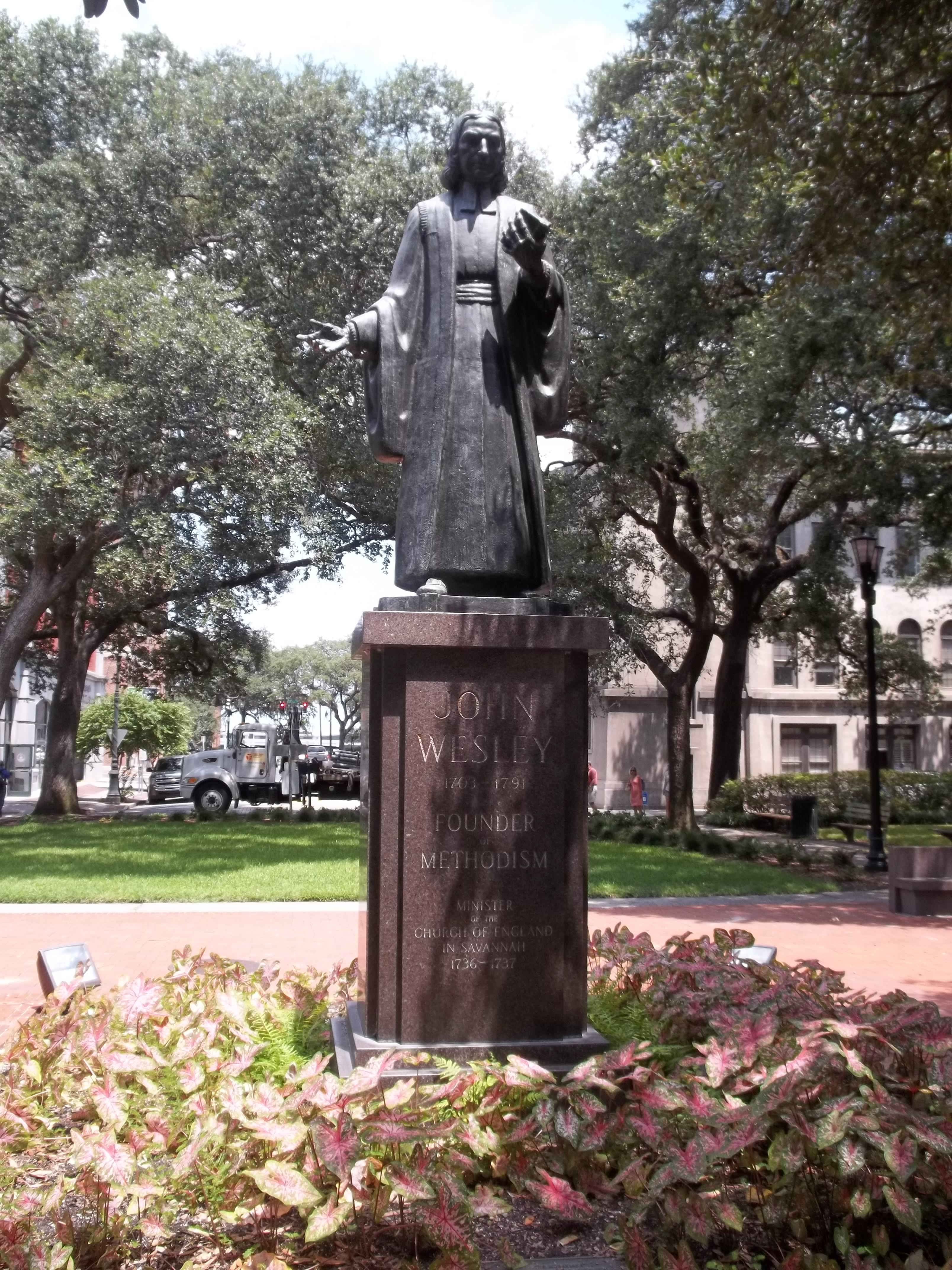 Savannah, Georgia: Statue of John Wesley